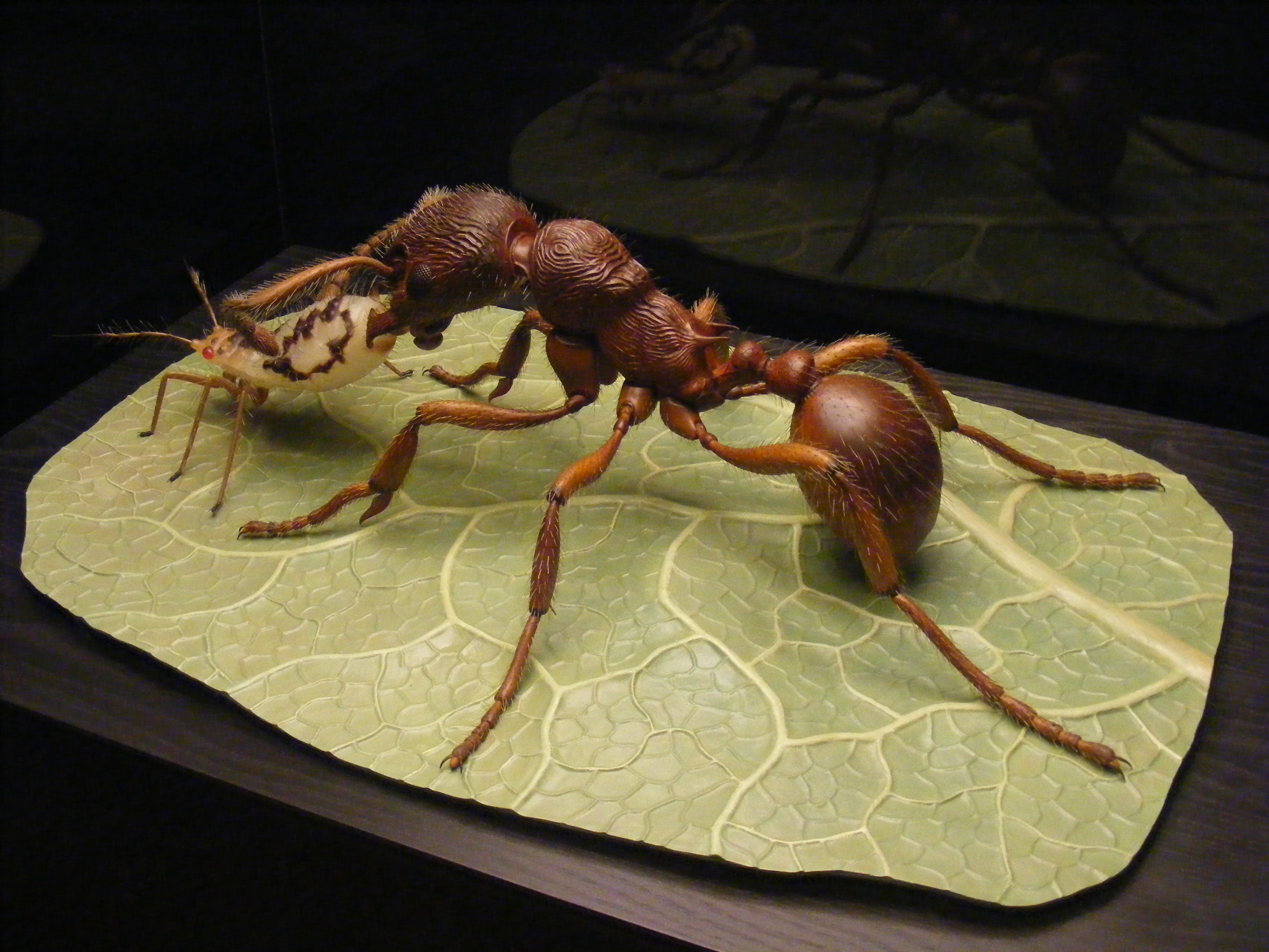 Ant, modelled by Alfred Keller at the Natural History Museum in Berlin.